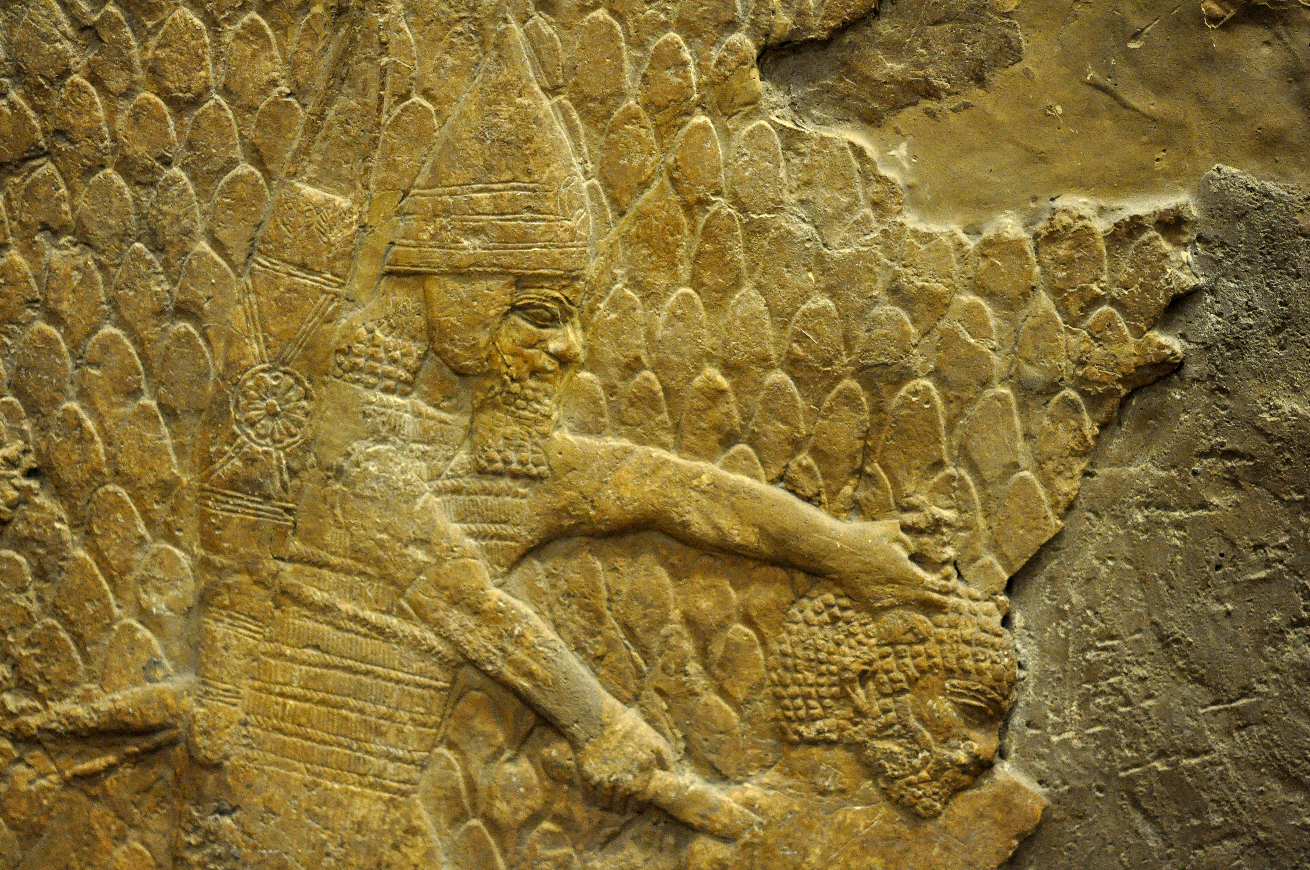 Assyrian soldier, using a dagger, about to behead a prisoner from the city of Lachish. Detail of a gypsum wall relief, which is part of a large sequence of the so-called "The Siege of Lachish Reliefs", dating back to the reign of Sennacherib, 700-692 BCE. From the South-West Palace at Nineveh, Mesopotamia, modern-day Iraq, currently housed in the British Museum, London.